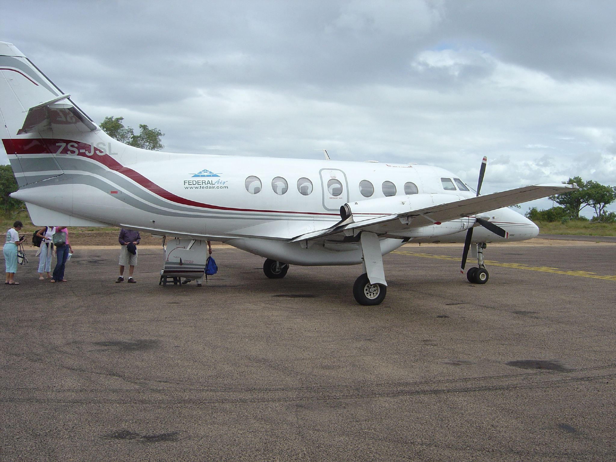 Aircraft of Federal Air, a South African airline, chartered to transport tourists to Ulusaba